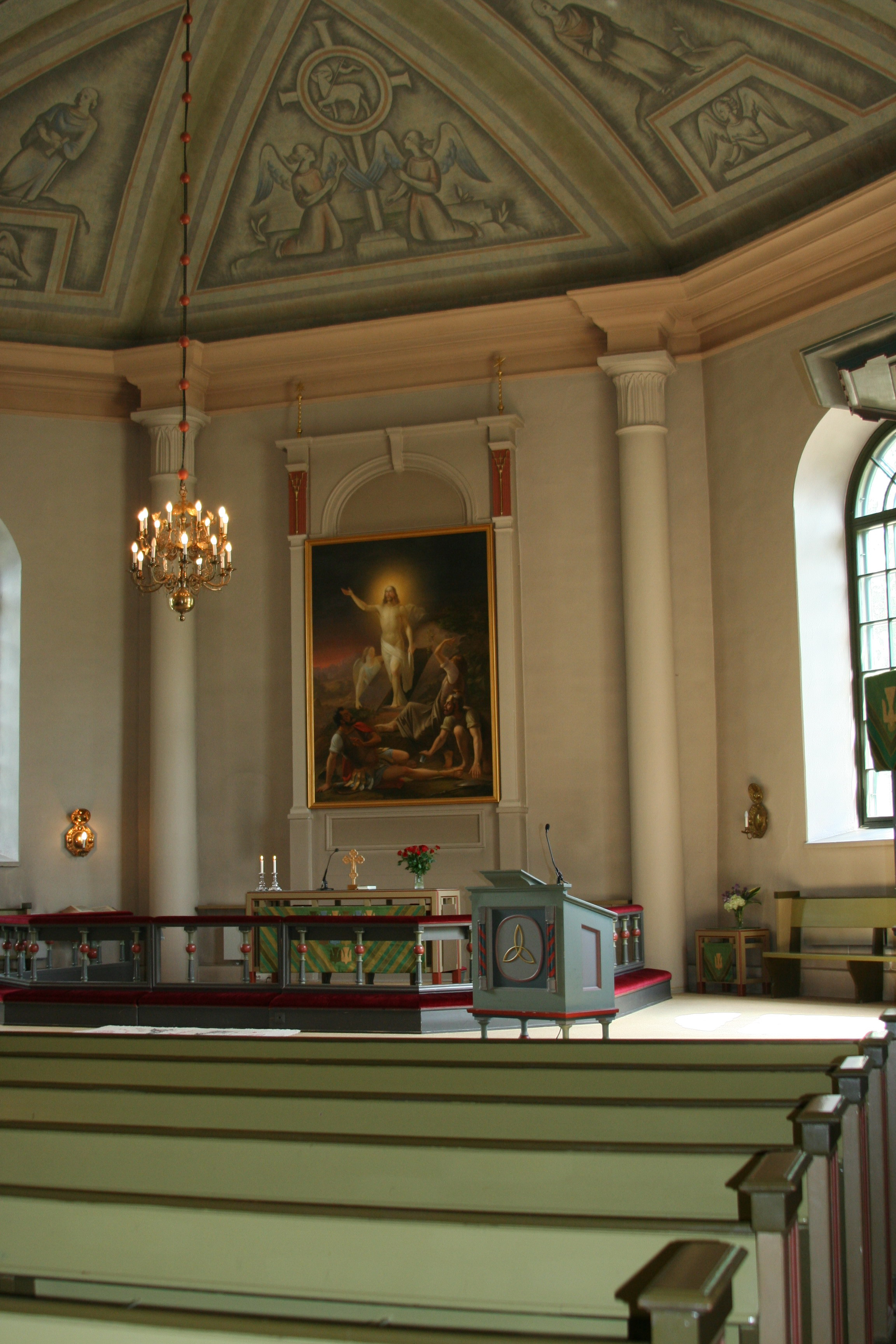 Vihti church, altar, Vihti, Finland. Altarpiece by B. A. Godenhjelm (1846).